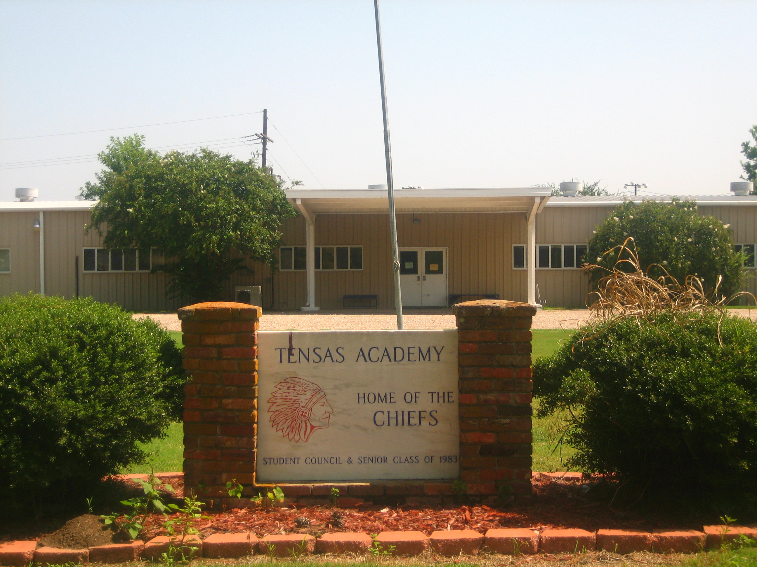 I took photo on Aug. 2, 2008.Billy Hathorn (talk) 01:37, 16 August 2008 (UTC)